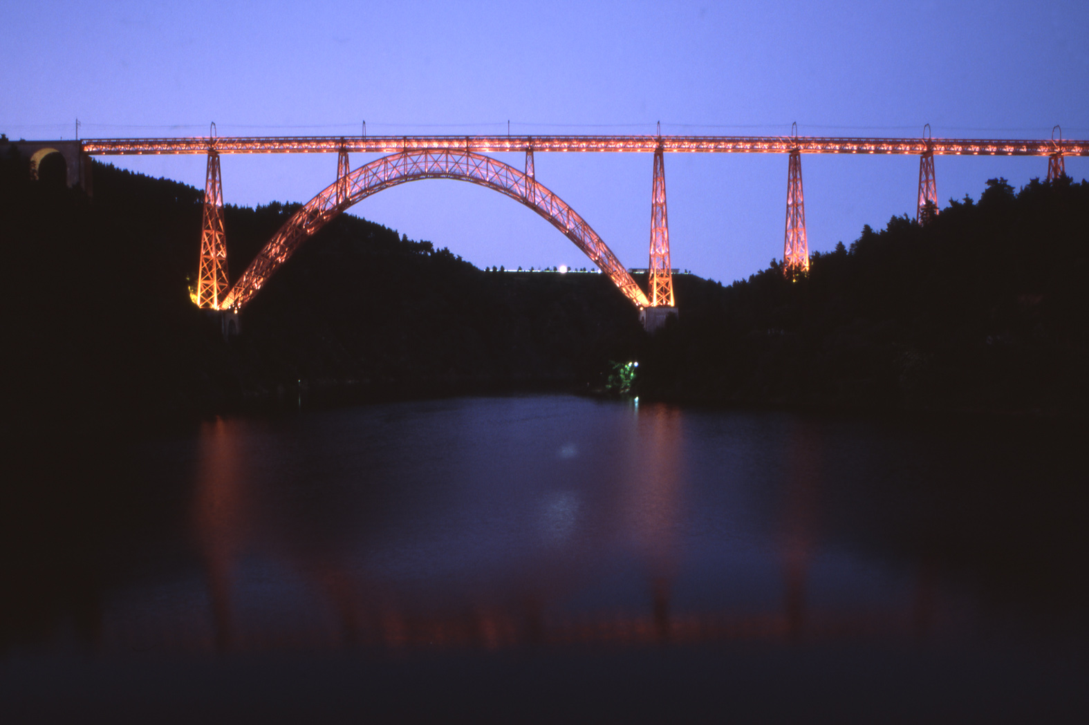 Blue hour at the Garabit viaduct; departement Cantal, France. Designed by Gustave Eiffel